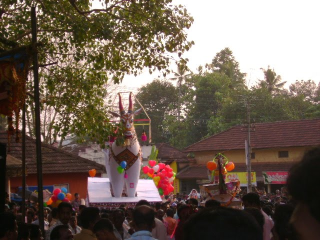 'Kettukazhcha' during Aswathy Ulsavam.